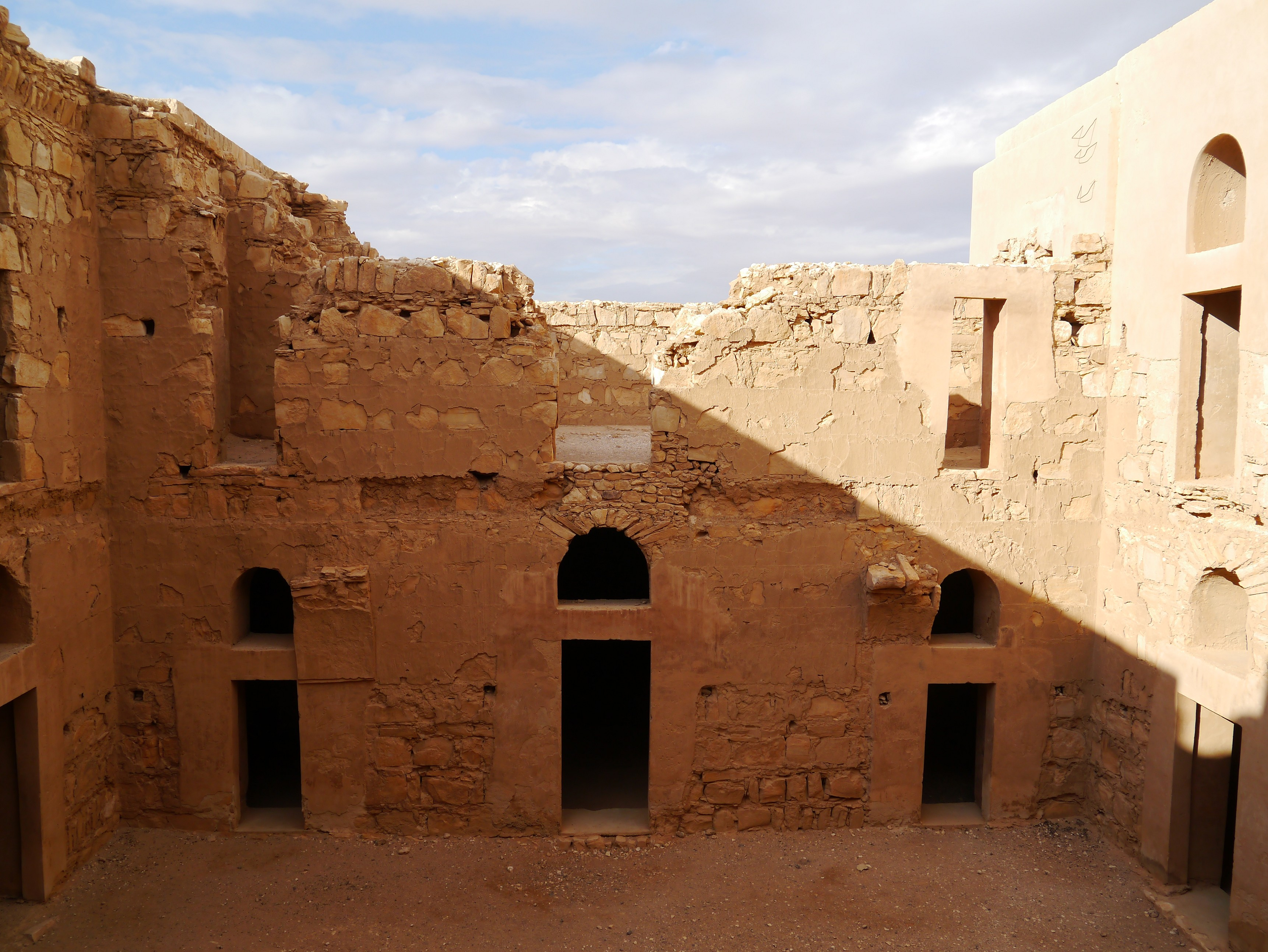 Inner courtyard of al-Kharana desert castle, Azraq, Eastern Jordan